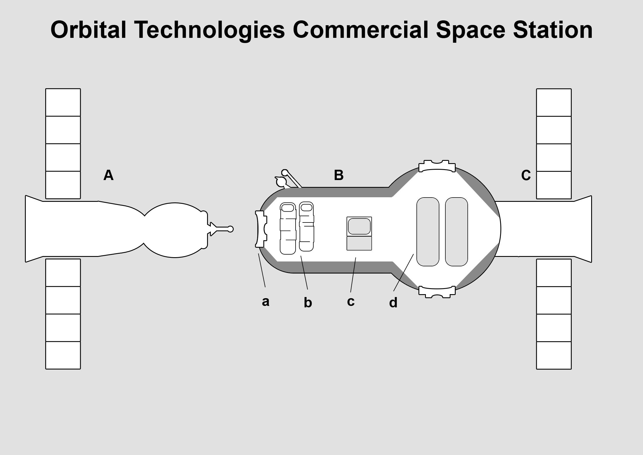 Orbital Technologies Commercial Space Station Planned private Russian space station. A - Soyuz type manned ferry B - space station proper C - optional Soyuz-derived propulsion system a - docking hatches b - sleeping bags c - "kitchen" area: microwave / fridge d - bathroom